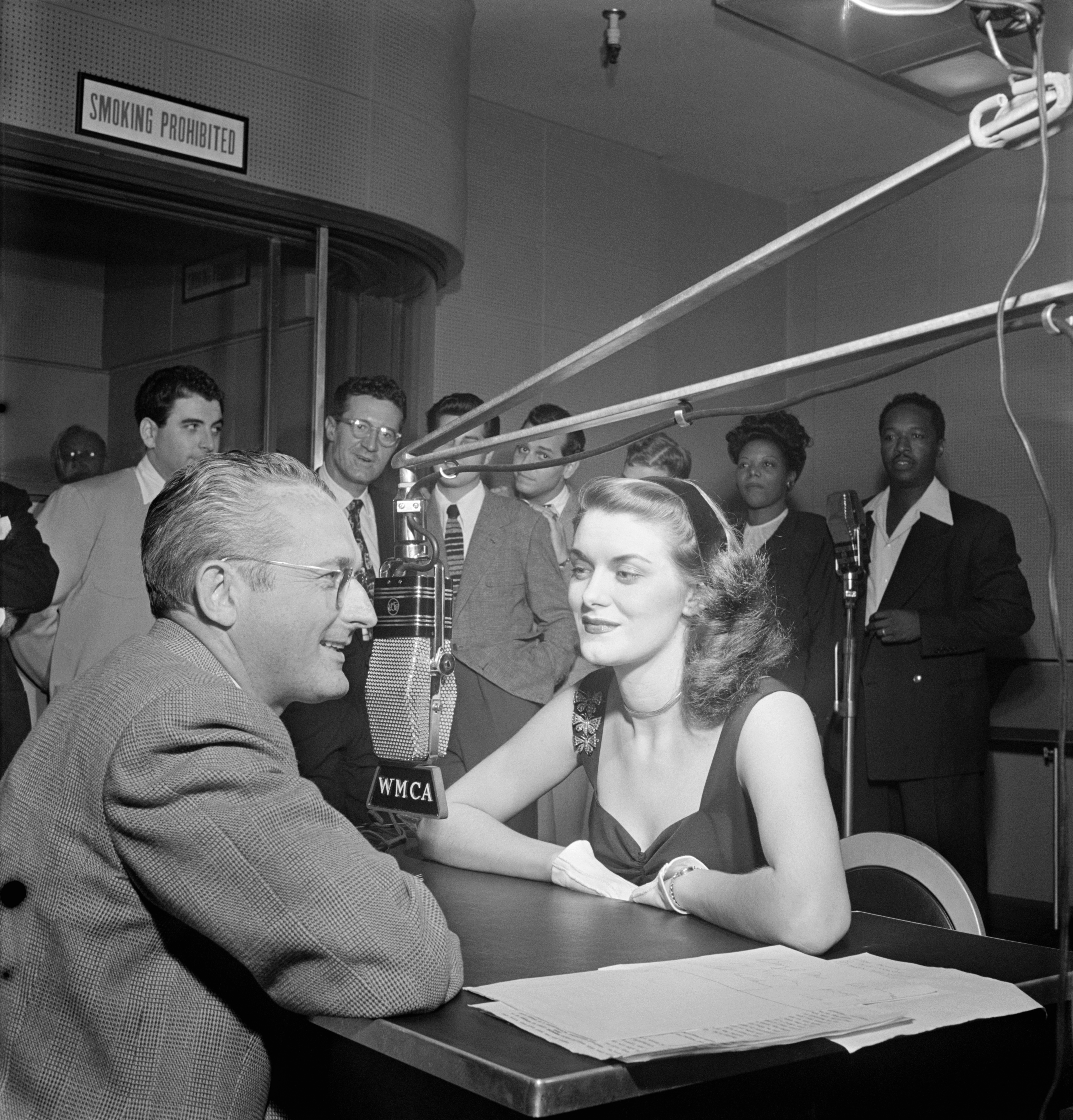 Tommy Dorsey (left) interviews the English pigeon, Beryl Davis, for his first disc jockey stint, with such names as Georgie Auld, Ray McKinley, Mary Lou Williams, Josh White and others visible in the background "Picture views of music world personalities," Down Beat, v. 14, no. 21 (Oct. 8, 1947), p. 20.